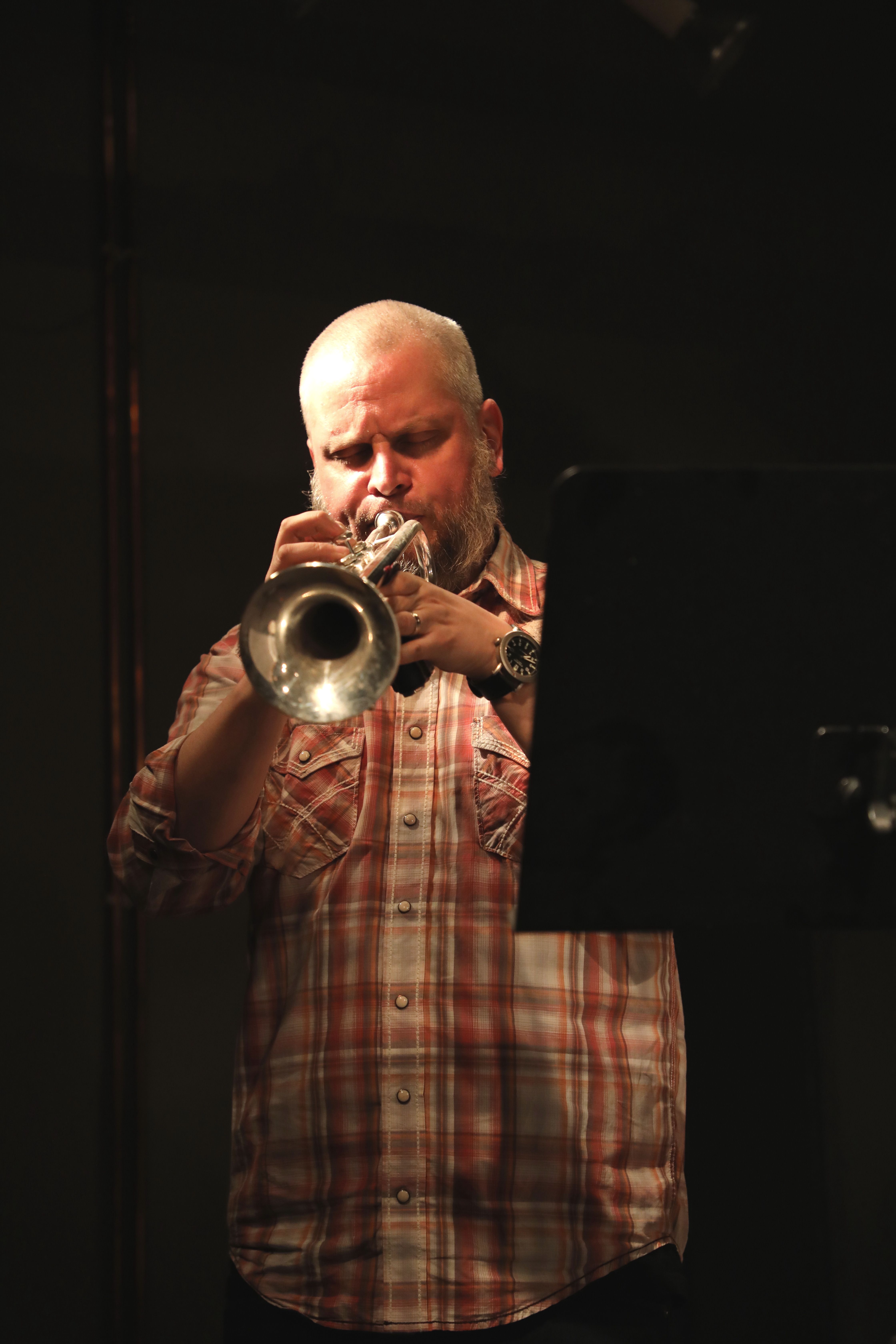 The Fictive Five is the jazz ensemble of composer and saxophone player Larry Ochs. Members are Nate Wooley (tr), Harris Eisenstadt (dr), Pascal Niggenkemper (db) & Ken Filiano (db).